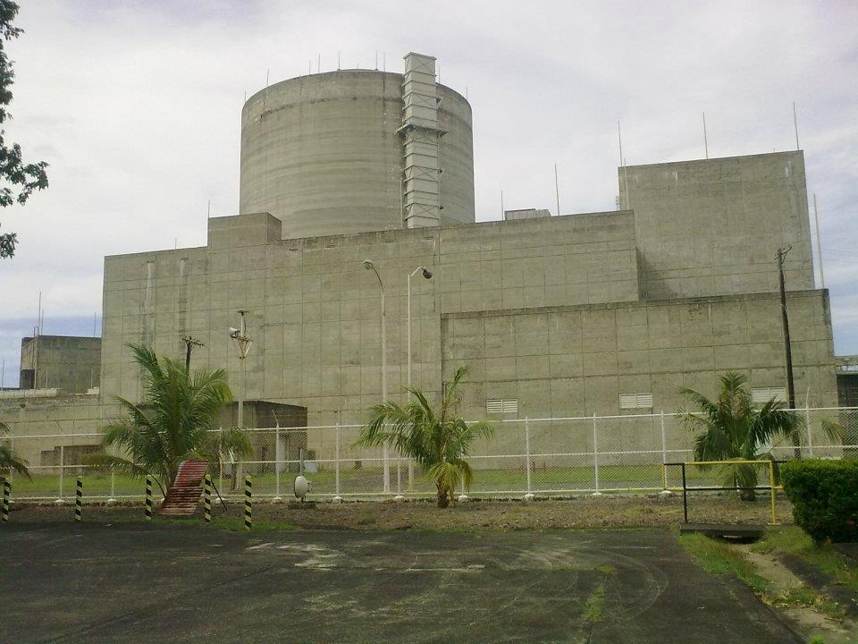 Bataan Nuclear powerpalnt building